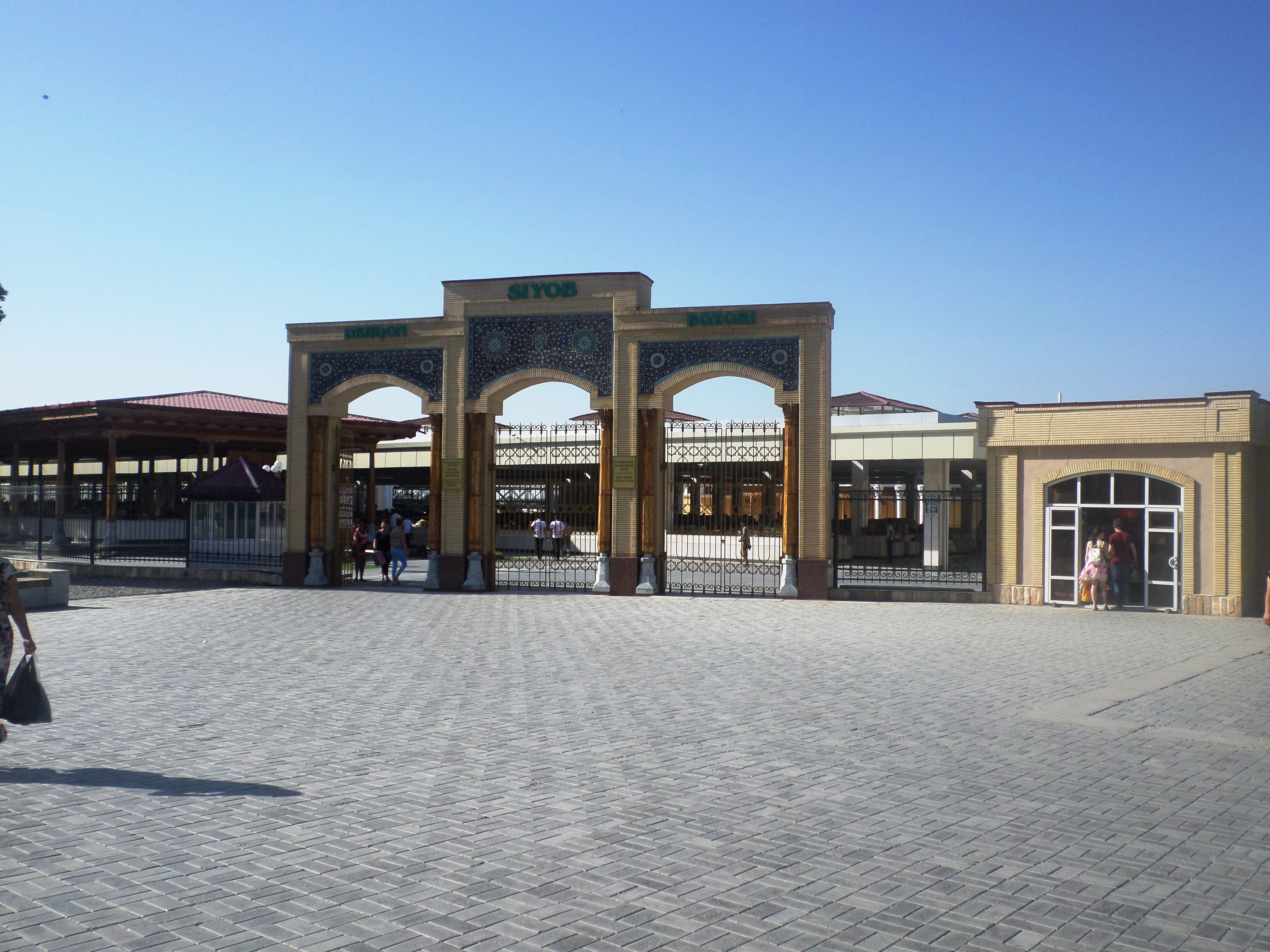 Avenues of modern Samarkand